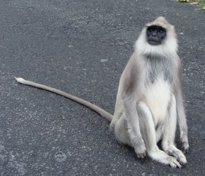 Tufted Gray Langur (Semnopithecus priam) in Mudumalai National Park, Tamil Nadu, India. It sits on the road from Udhagamandalam (Ooty) to Mysore.